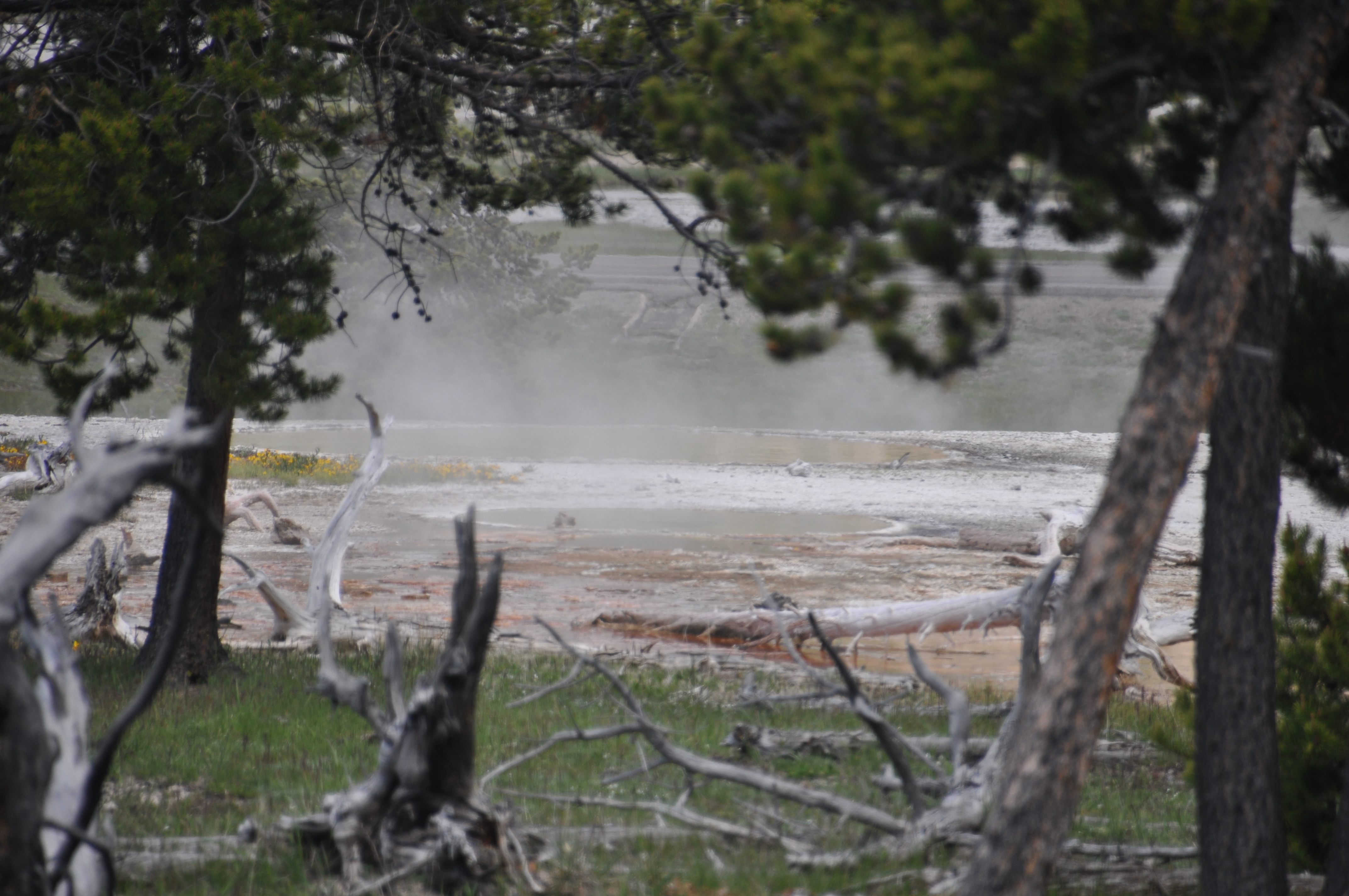 Baby Daisy Geyser (foreground) & Baby Splendid Geyser (background) (late morning, 3 June 2013)